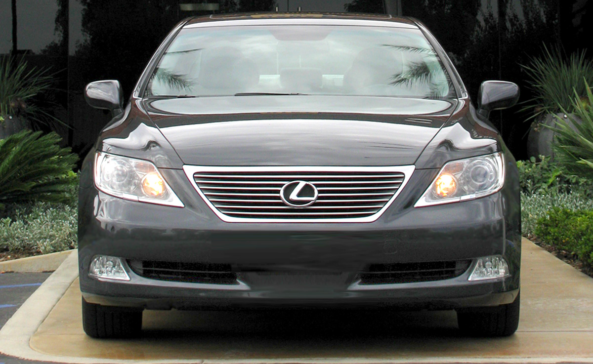 Read our review of the 2009 Lexus LS 460 For pricing and more information on the Lexus LS 460, visit NADAguides